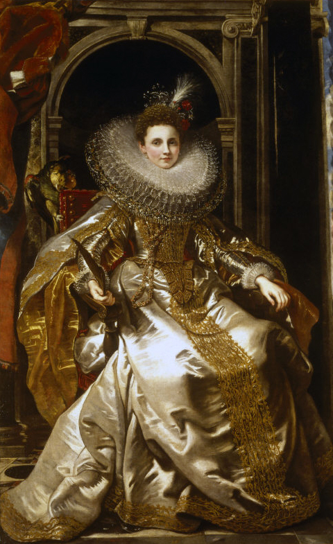 Portrait of Maria Serra Pallavicino